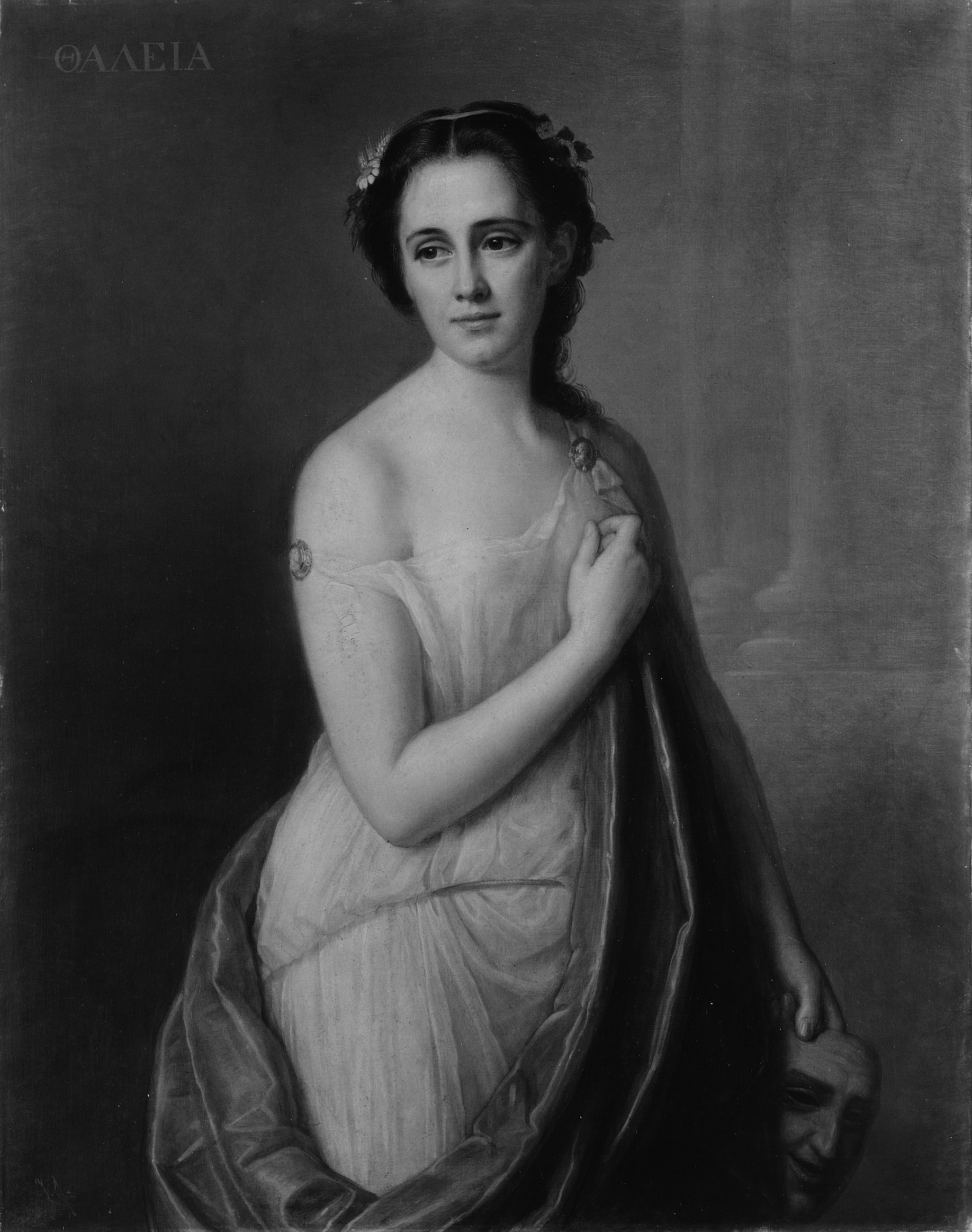 Height: 110.5 cm (43.5 ″); Width: 83.8 cm (32.9 ″) dimensions QS:P2048,110.5U174728;P2049,83.8U174728